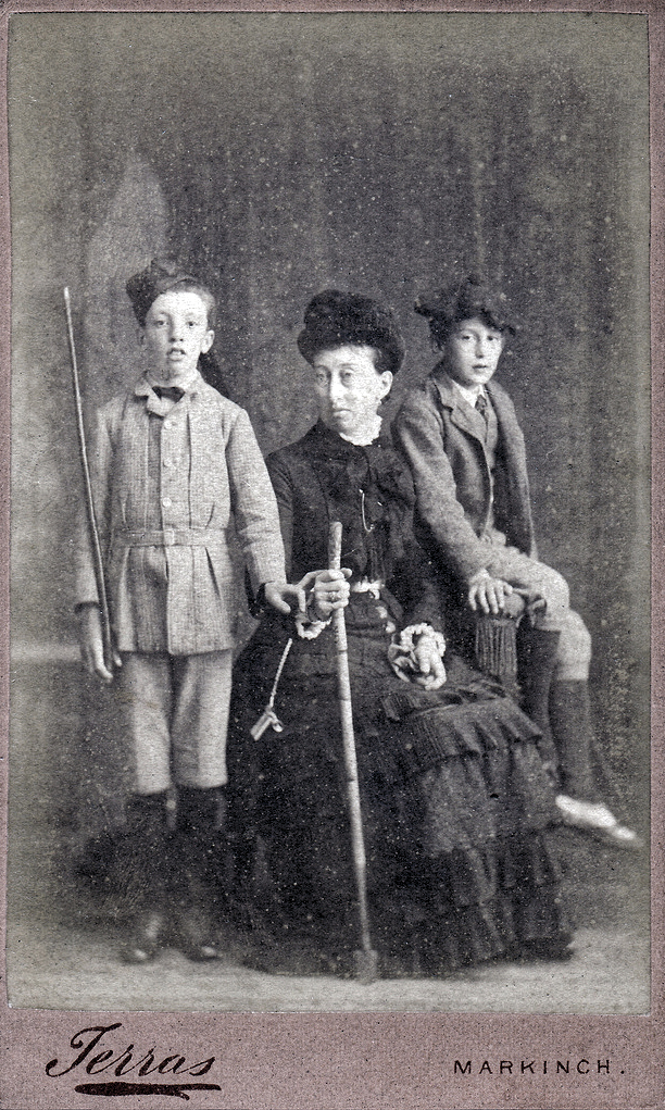 Carte de visite c.1880 showing Arthur Hill, 6th Marquess of Downshire (1871–1918) aged about 10 years, with his mother Georgiana Elizabeth (Balfour) by photographer John Terras (1844-1922) of Markinch, Scotland.